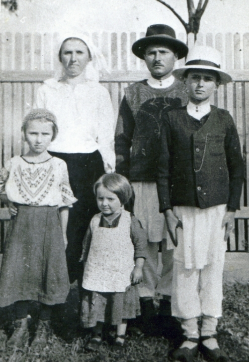 Dumitru Tinu copil